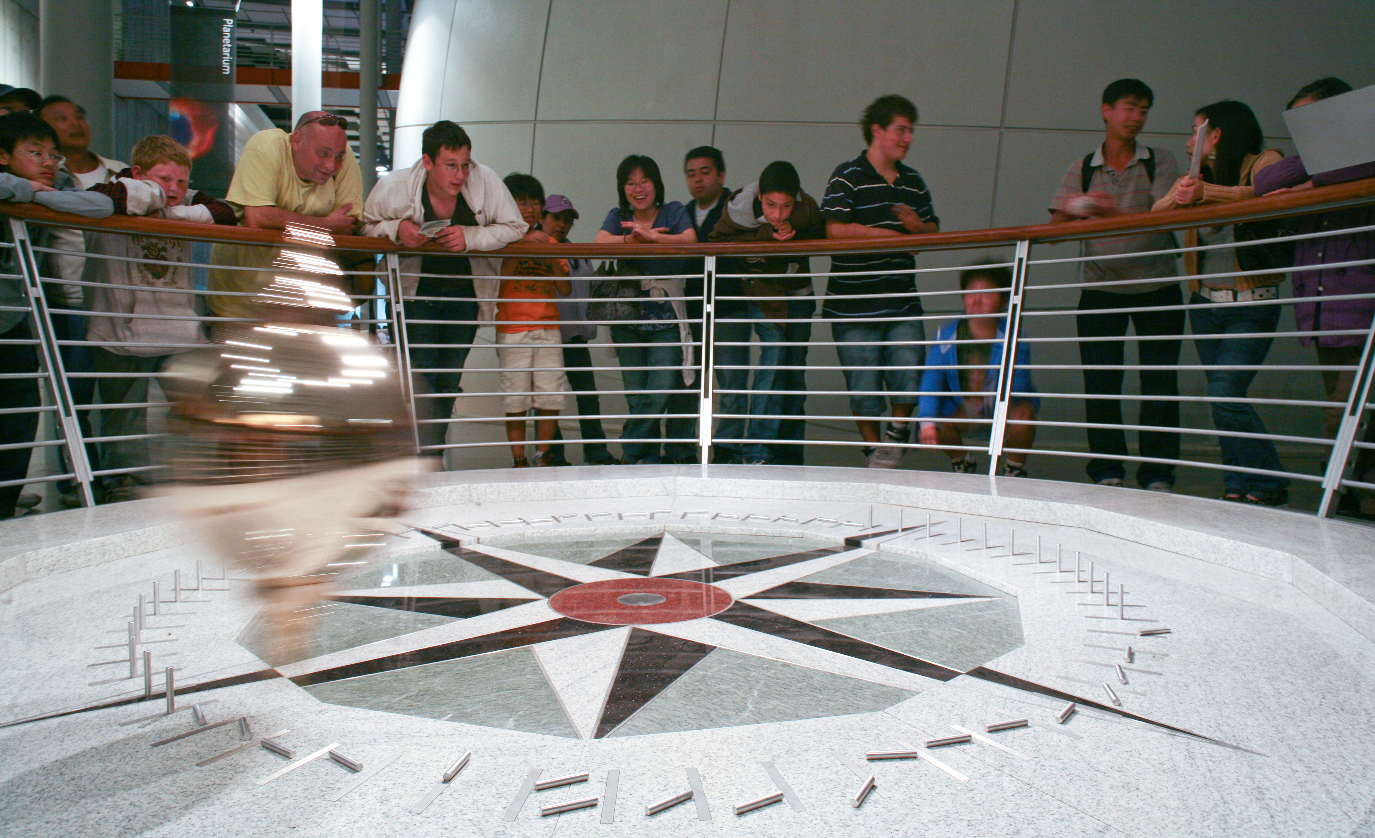 A Foucault Pendulum installed at the Cal Academy of Sciences